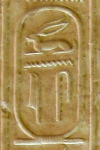 Cartouche 33, Abydos King List. Temple of Seti I, Abydos, Egypt